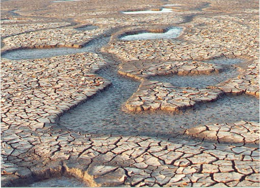 Dried mud creeks on the shores of the Wash. Superb patterned mud during summer.